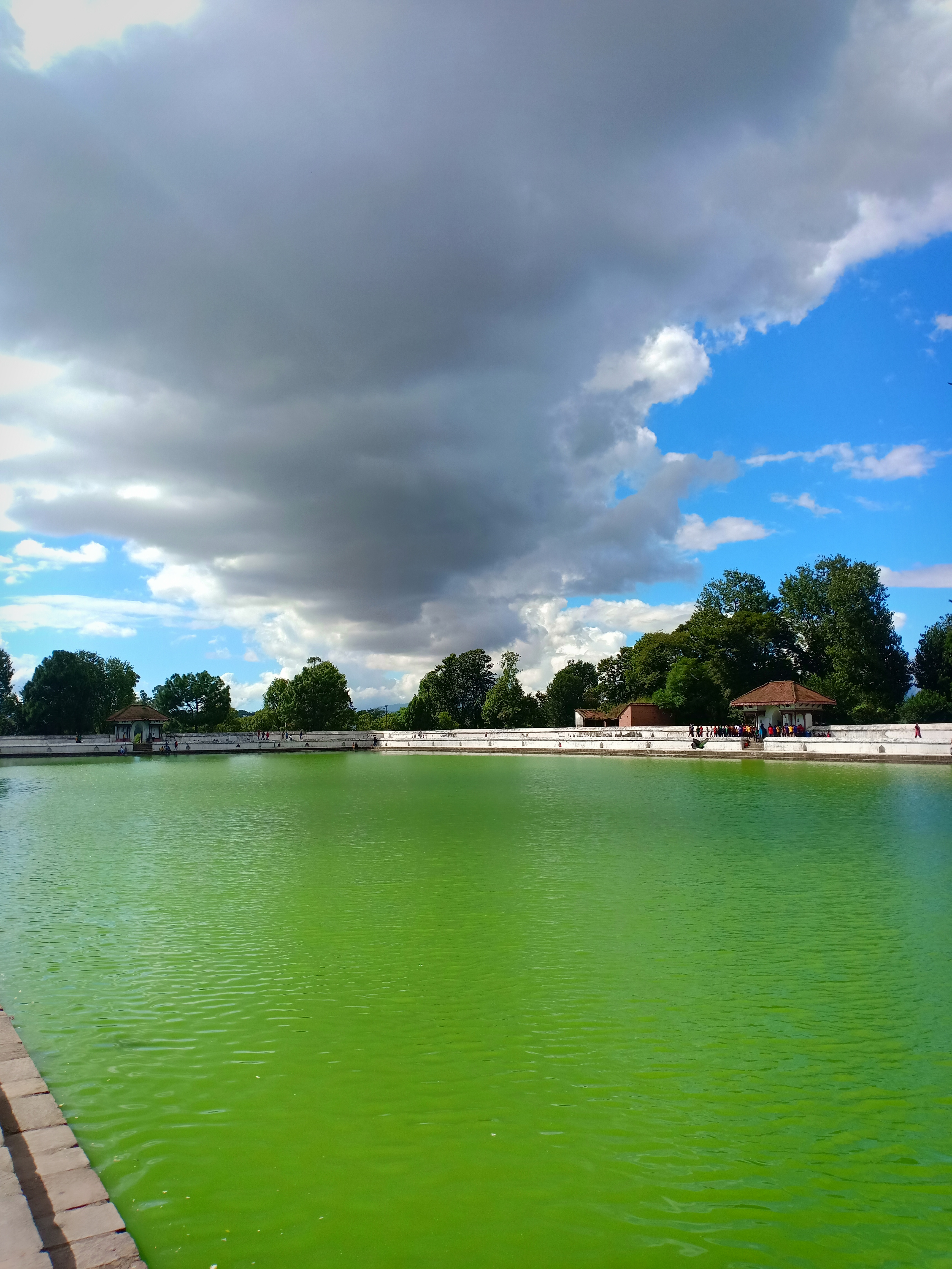 Sidhapokhari